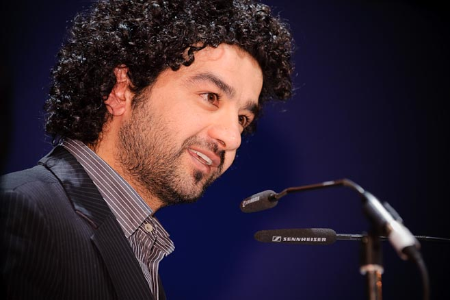 Foto: Stephan Röhl